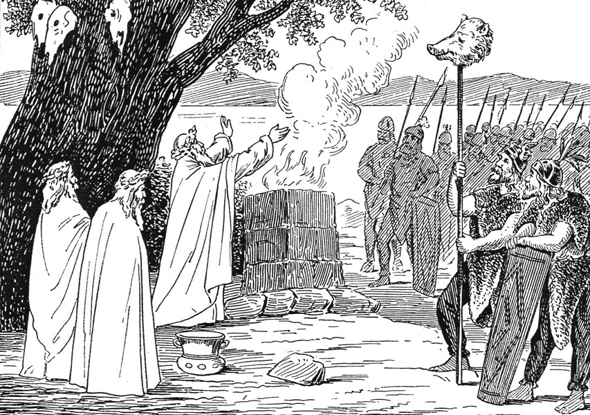 Slavs serving their Gods on the island of Rujan (Rigen, Rügen).